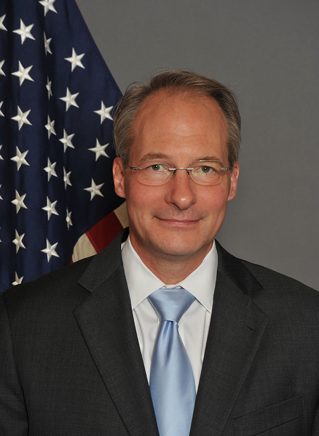 Official Photo of Ambassador John Koenig